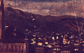 Landscape of Itu